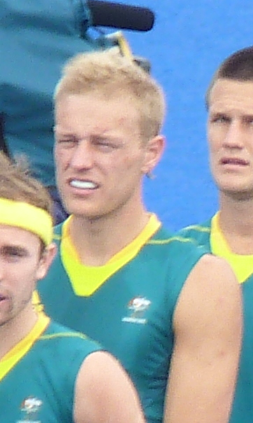 2012 Olympic field hockey team Australia at the Riverbank Arena before the game against Spain